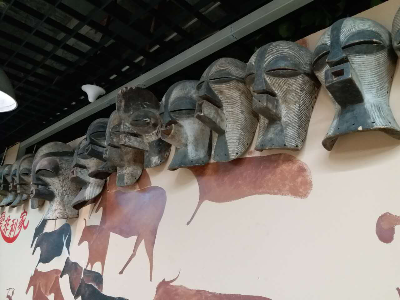 Store located in the Yiwu Africa Products Exhibition Center in District 5 of the Yiwu International Trade City in Yiwu, Zhejiang. Masks from Congo.